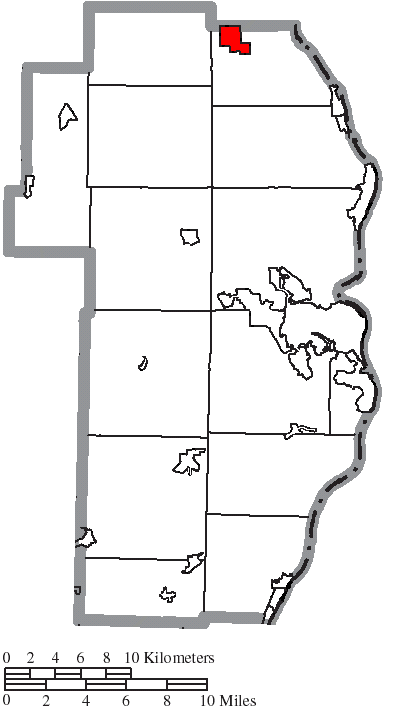 Map of the municipal and township boundaries of Jefferson County, Ohio, United States, as of the 2000 census, with the location of the village of Irondale highlighted. Township borders are shown only in unincorporated areas in order to differentiate incorporated and unincorporated areas more clearly.